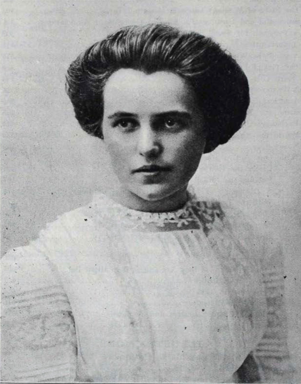 Dorothy Louise Anderson of Seattle, WA. Circa 1911, not long before her untimely death at age 18